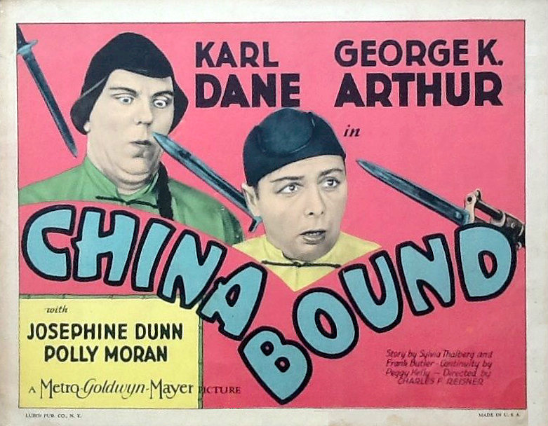 Lobby card for the American film China Bound 1929 with Karl Dane and George K. Arthur.